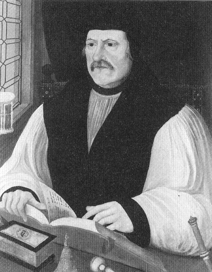 Archbishop Matthew Parker (1504-1575)